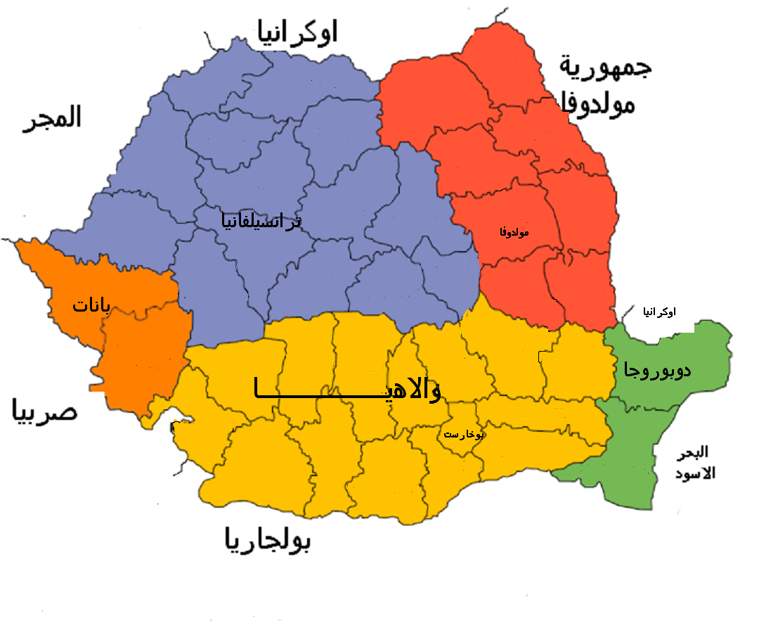 Romania five regions in Masri Language